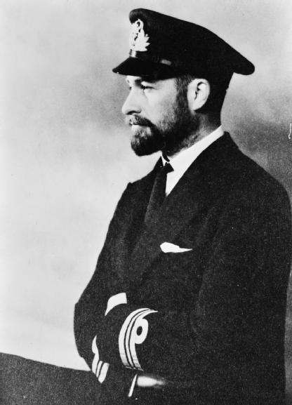 Portrait of Stephen Halden Beattie, awarded the Victoria Cross: HMS CAMPBELTOWN, St Nazaire, 27 March 1942.